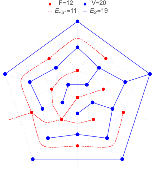 Blue graph is a spanning tree of a dodecahedral graph, and red graph is its dual.